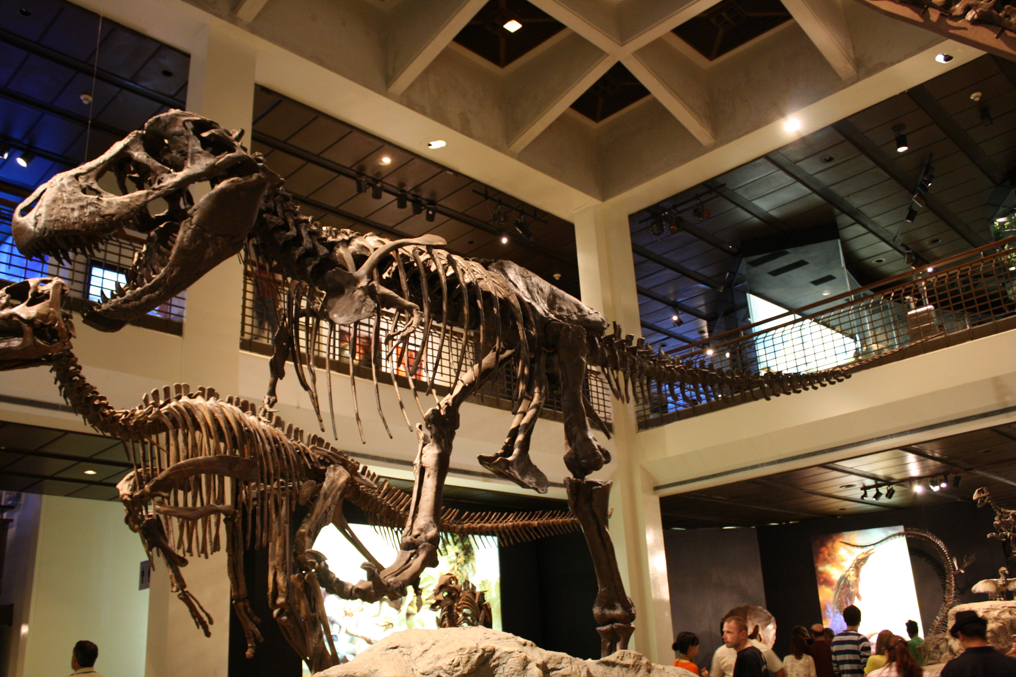 Tyrannosaurus rex (Upper Cretaceous, Hell Creek Formation, Montana) Tyrannosaurids, the family of large carnivorous dinosaurs containing the species Tyrannosaurus rex, are confined to the Late Cretaceous rocks of north America and Asia. Wikipedia Loves Art at the Houston Museum of Natural Science This photo of item # [1] at the Houston Museum of Natural Science was contributed under the team name "The_Wookies" as part of the Wikipedia Loves Art project in February 2009. Houston Museum of Natural Science The original photograph on Flickr was taken by andytang20—please add a comment to the original Flickr page whenever a use has been made on Wikipedia or another project. Project galleries on Flickr: this institution, this team